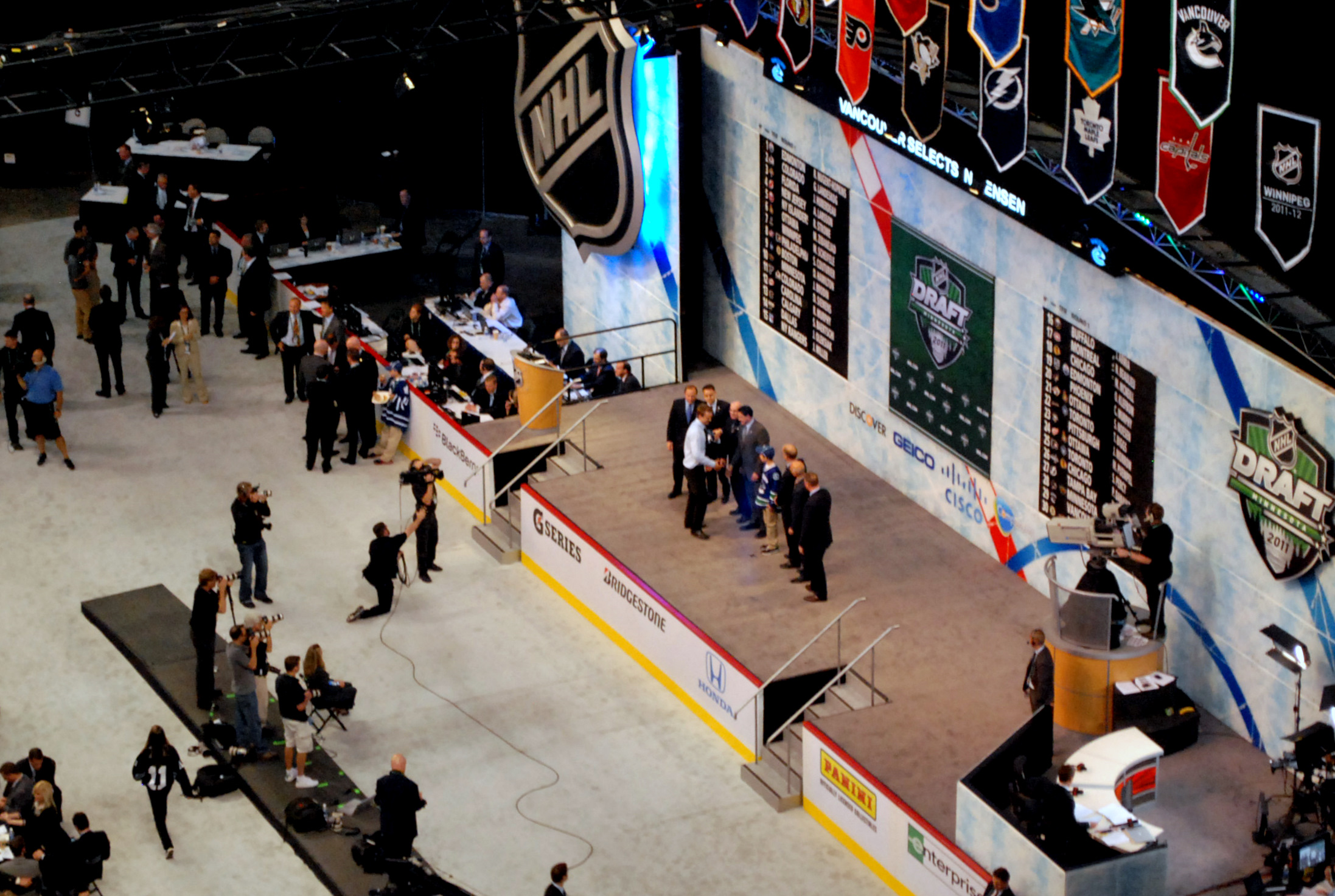 Danish forward Nicklas Jensen (on stage, facing right) upon being selected 29th overall by the Vancouver Canucks in the 2011 NHL Entry Draft.